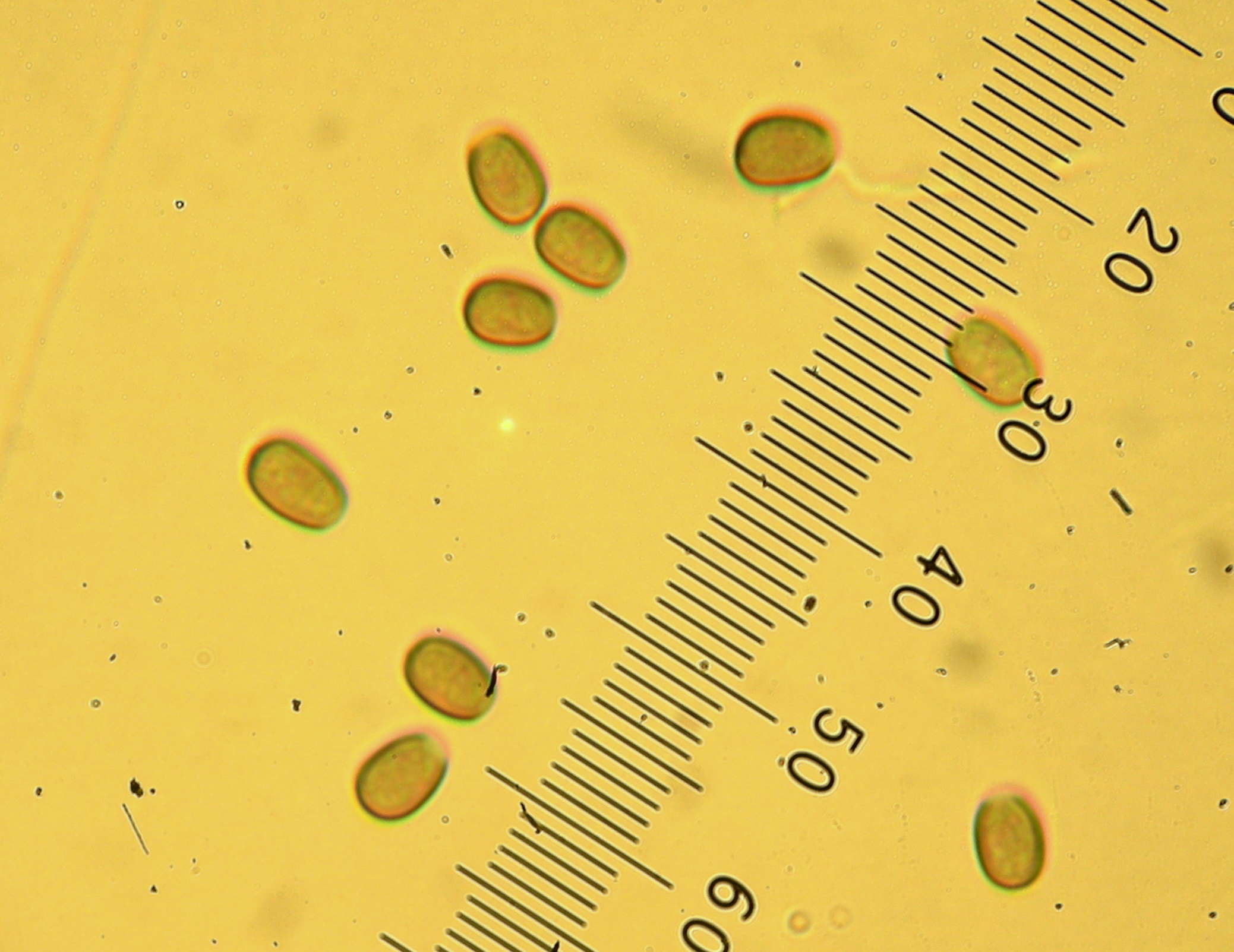 Psathyrella piluliformis (Bull.) P.D. Orton Image location: Bon Tempe Reservoir, Marin Co., California, USA Spore print dark brown and spores measuring ~ 5.0-5.8 X 3.2-3.8 microns, smooth, elliptical with an apical pore, somewhat “inconspicuous”. Used references: Memoirs of The New York Botanical Garden by A. Smith For more information about this, see the observation page at Mushroom Observer.